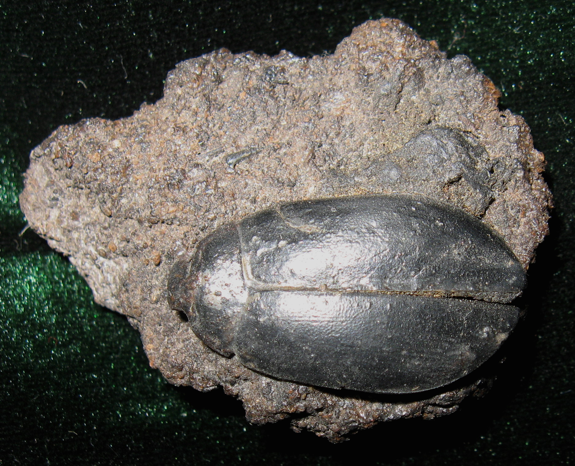 A fossil Cybister explanatus from the Pleistocene tar deposits of Kings Co., California. Stonerose Interpretive Center Collections # SR EI ??-??-??